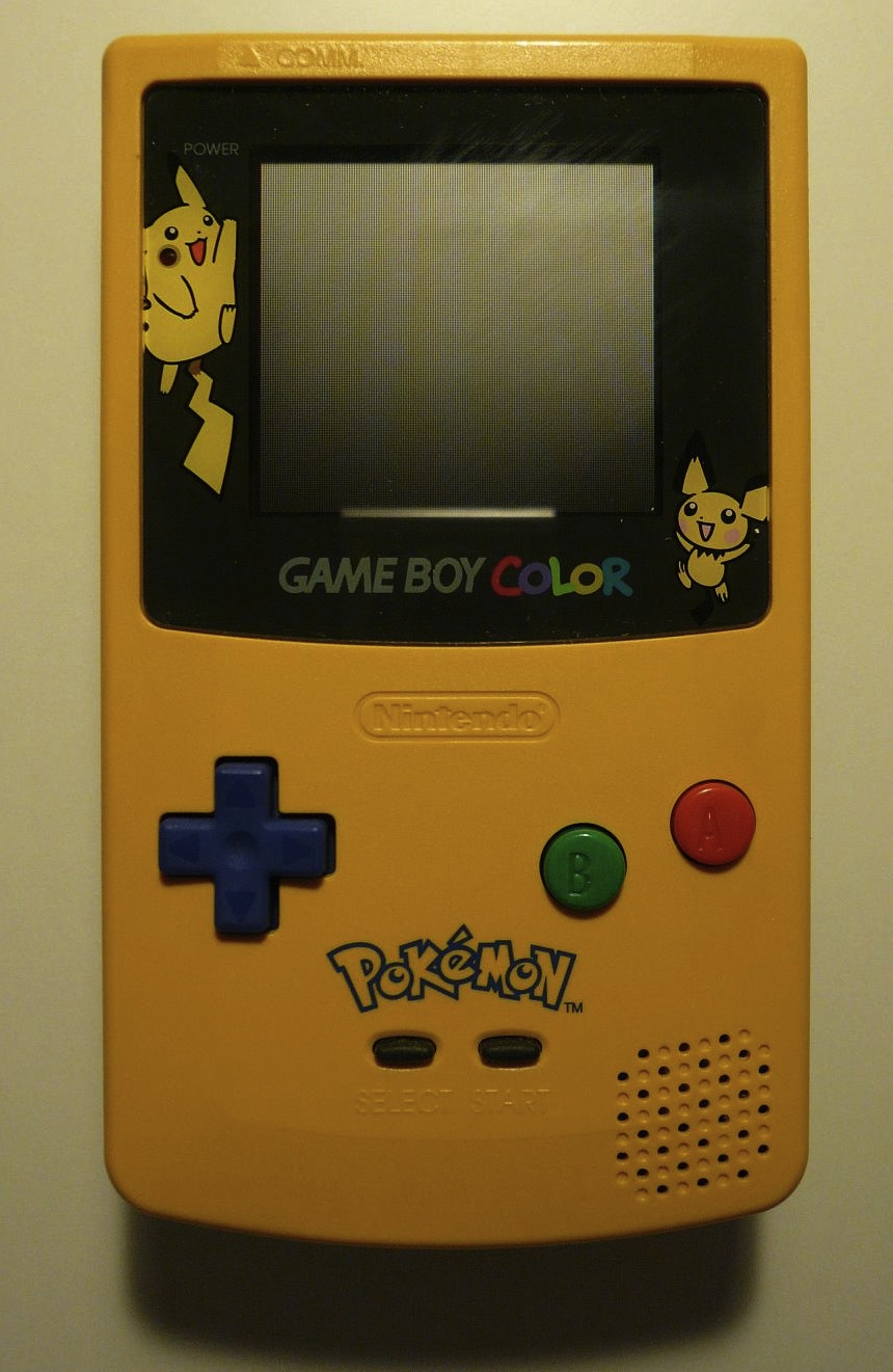 A yellow, Pikachu-themed Game Boy Color.